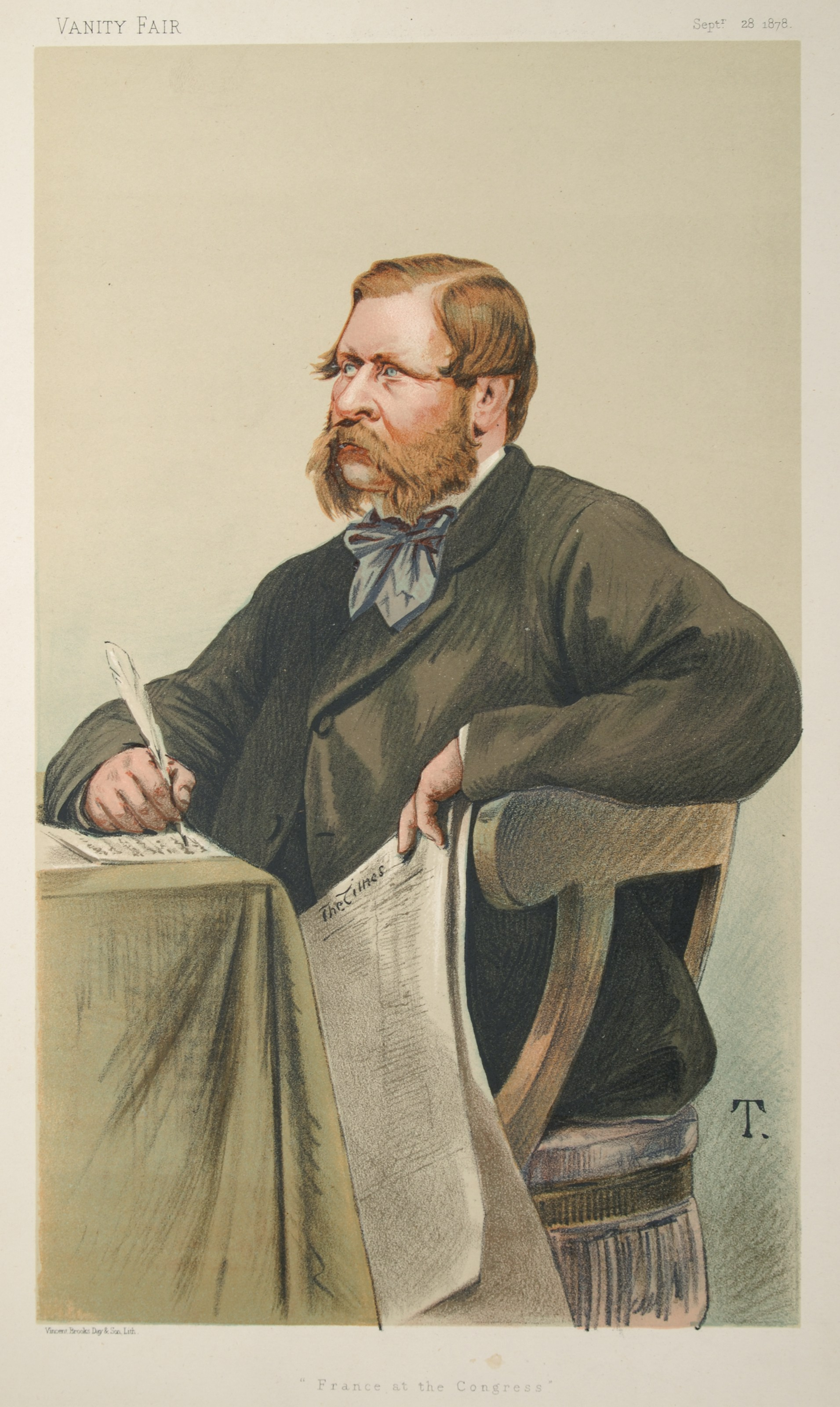 Statesmen No.284: Caricature of M William Henry Waddington. Caption reads: "France at the Congress"